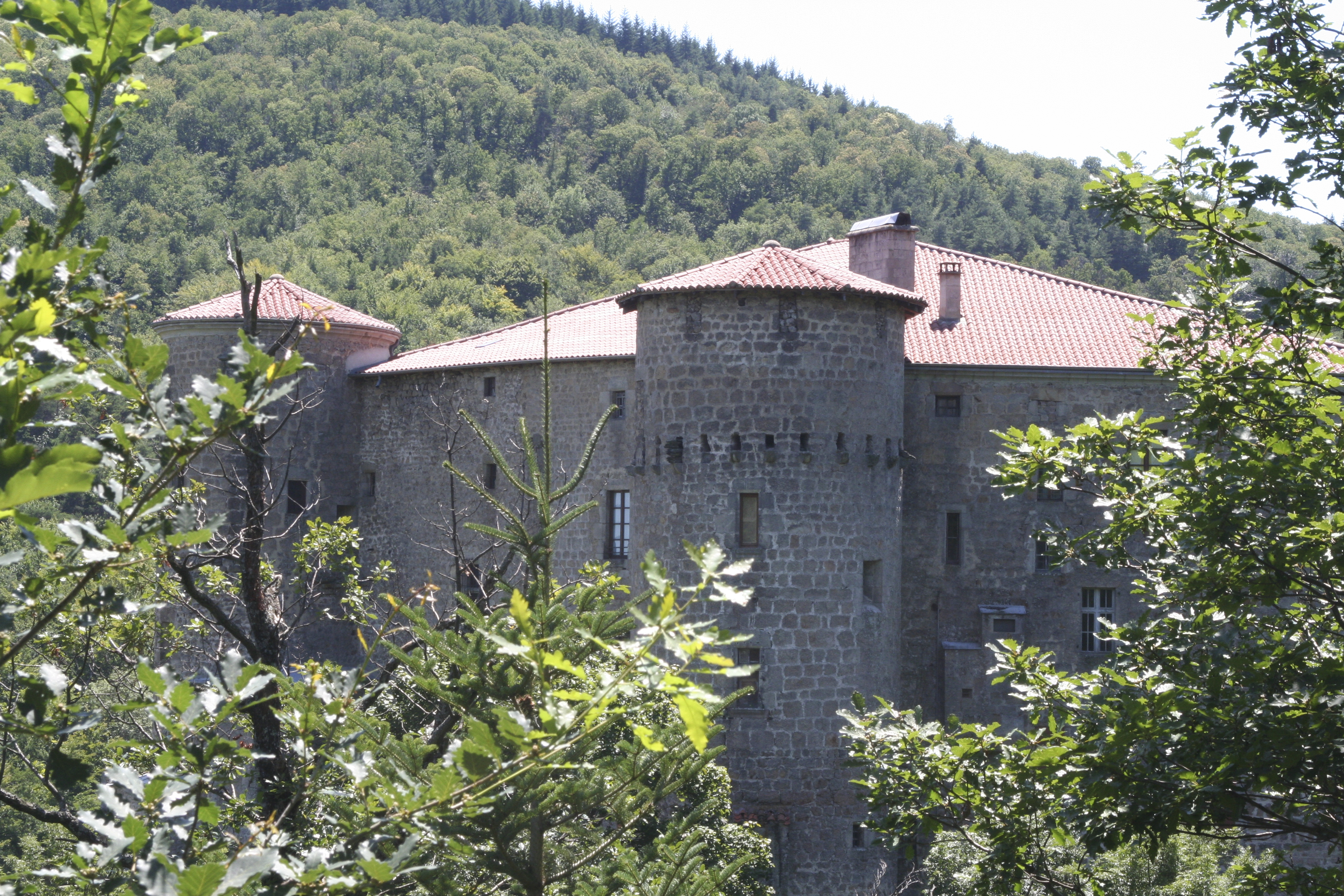 Boscs Castle